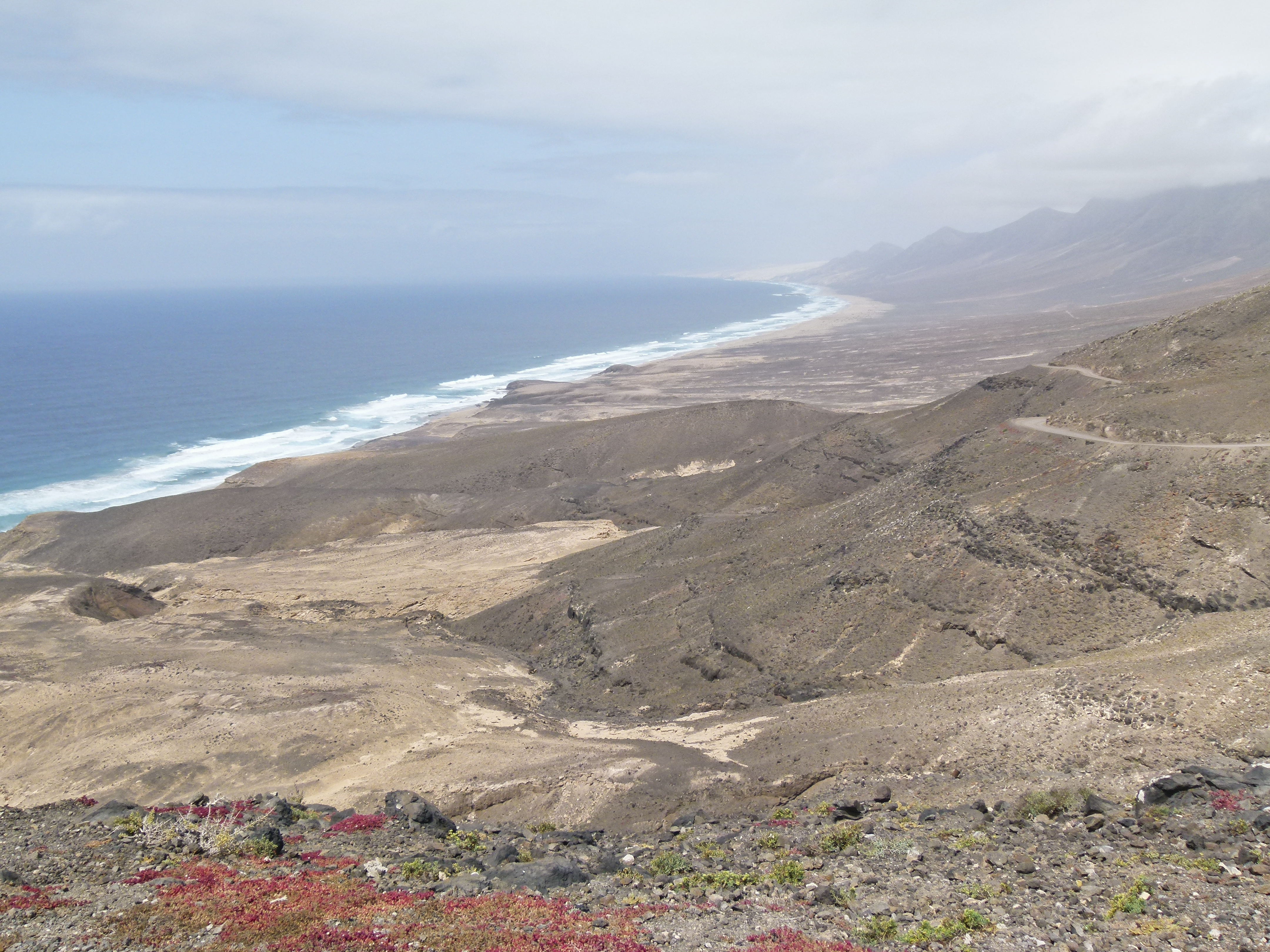 View from Montana Aguda: El Cofete, Pájara, Jandia, Fuerteventura, Canary Islands, Spain.